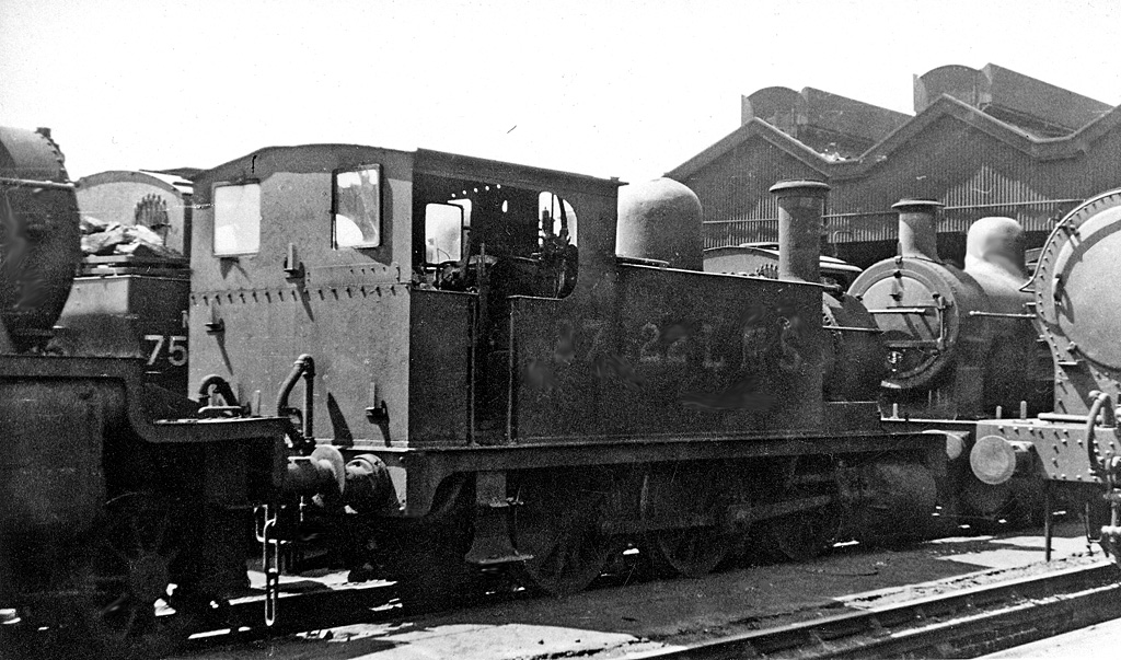 Birkenhead Locomotive Depot.: ex-North London 0-6-0T with other engines outside the LMS part of the Depot. Ex-North London Class 75 2F 0-6-0T No. 27522 (still in LMS livery) rests between other engines on a Sunday in 1948. A large number of engines were required for shunting in the many Yards around the Birkenhead Docks. This engine looks its age of nearly 70 years but later went back to London and lasted another nine years.